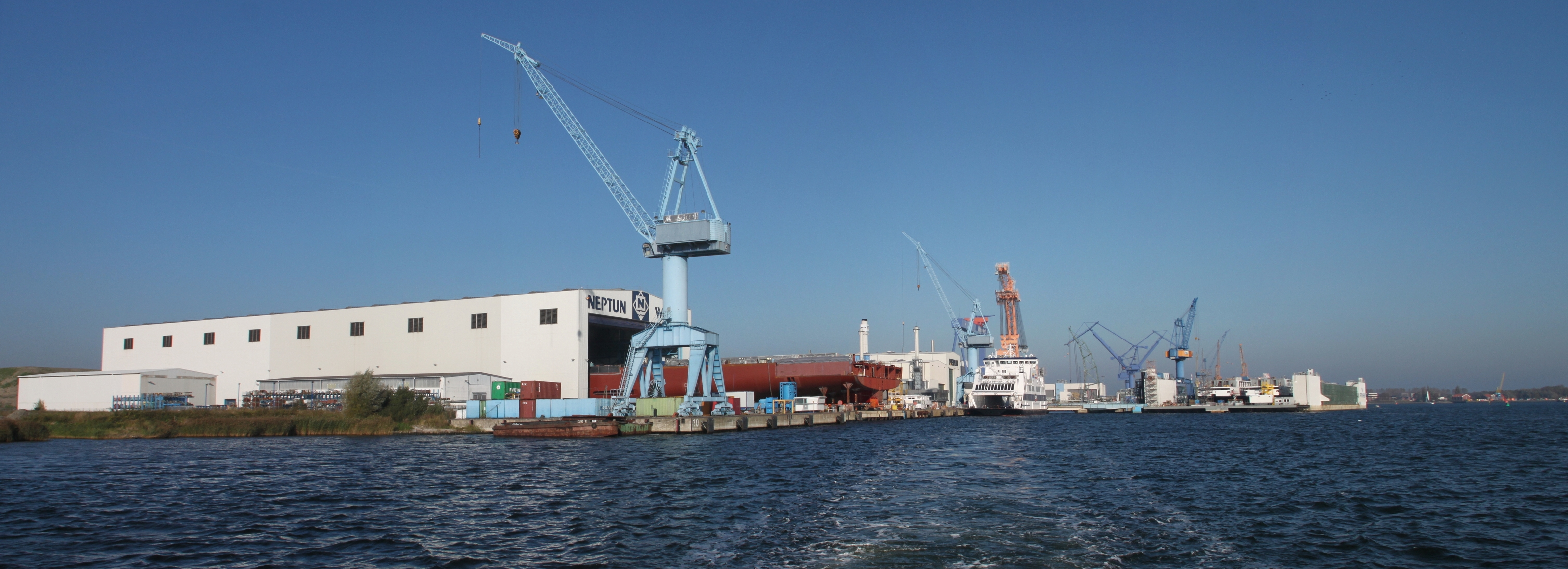 This image shows the Neptun Werft in Rostock.